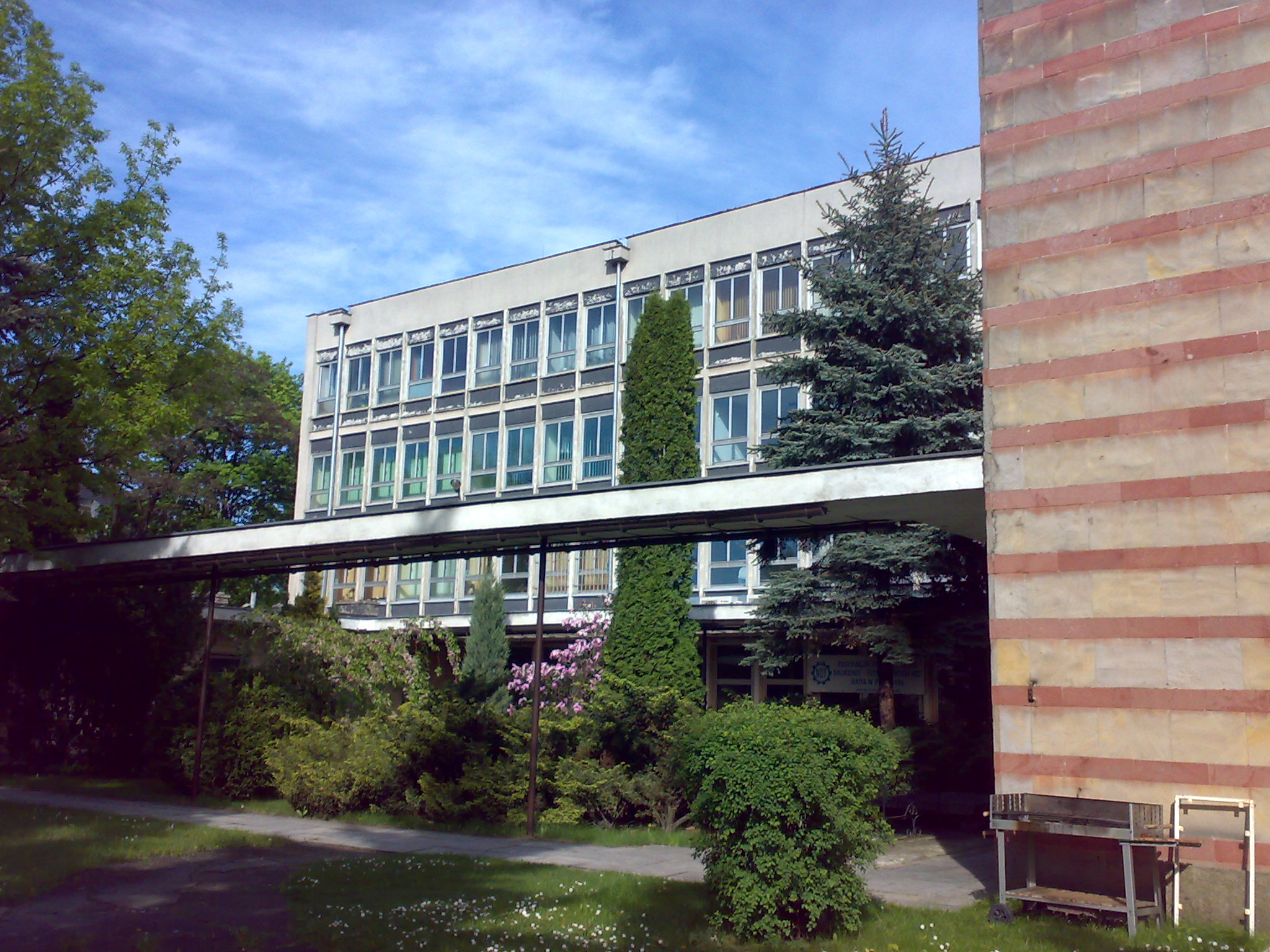 NOT-Building in Poznan, Wieniawskiego Street.